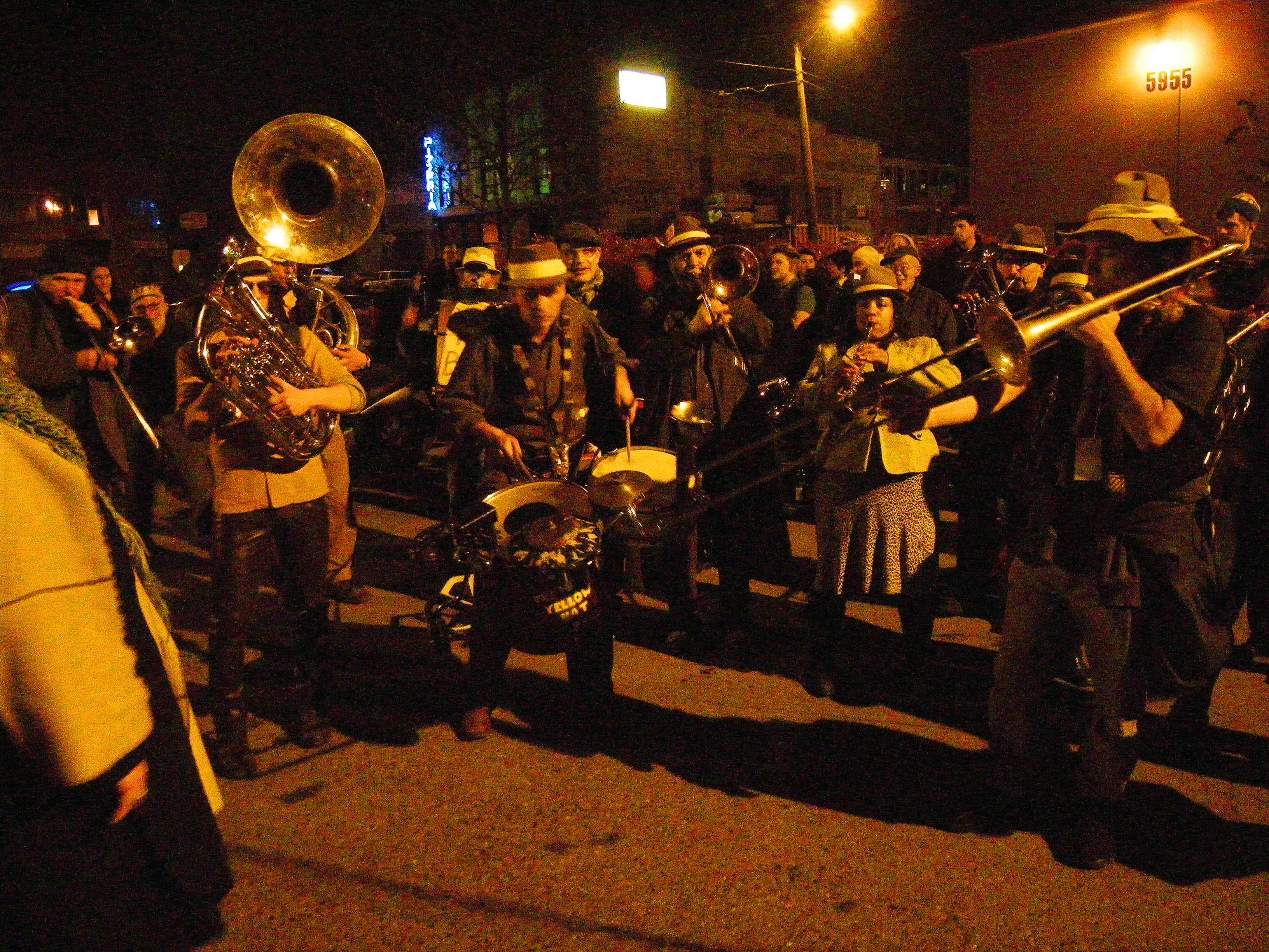 Yellow Hat Band performing at the corner of S. Vale and Airport Way S. in Georgetown, Seattle, Washington as part of HonkFest West.